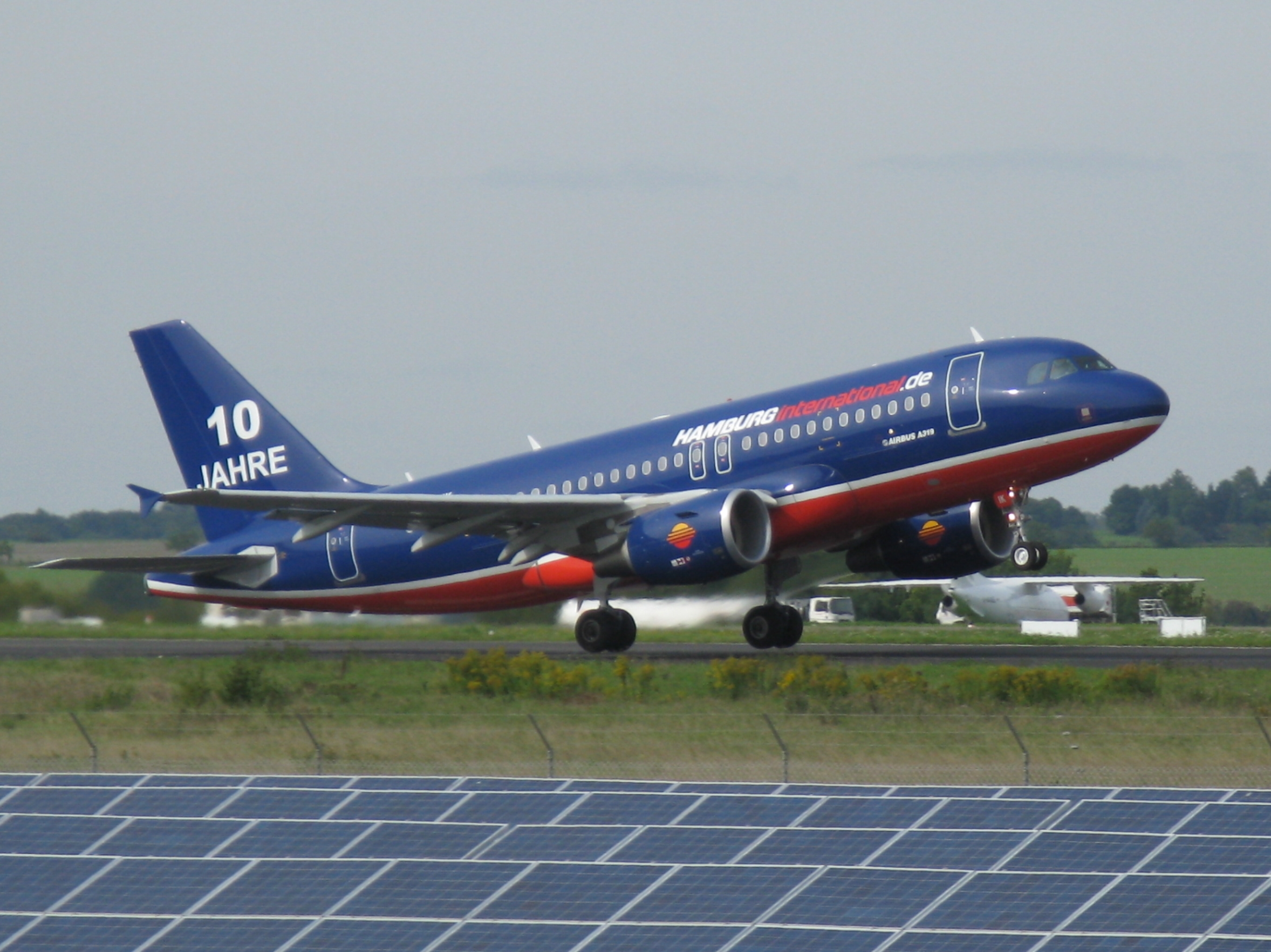 An Airbus A 319 of Hamburg International is taking off at the airport of Saarbrücken